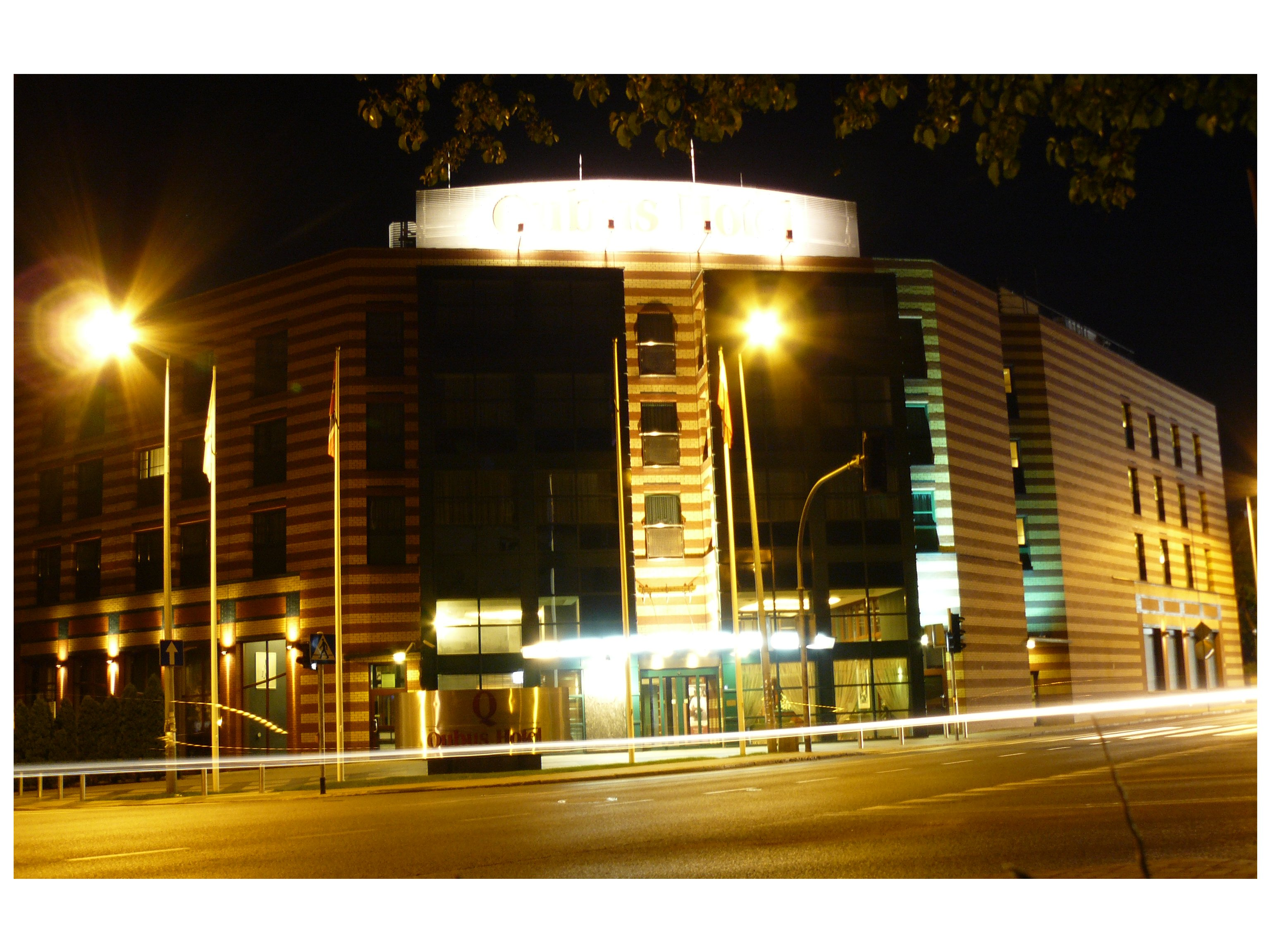 Hotel Qubus Gorzów